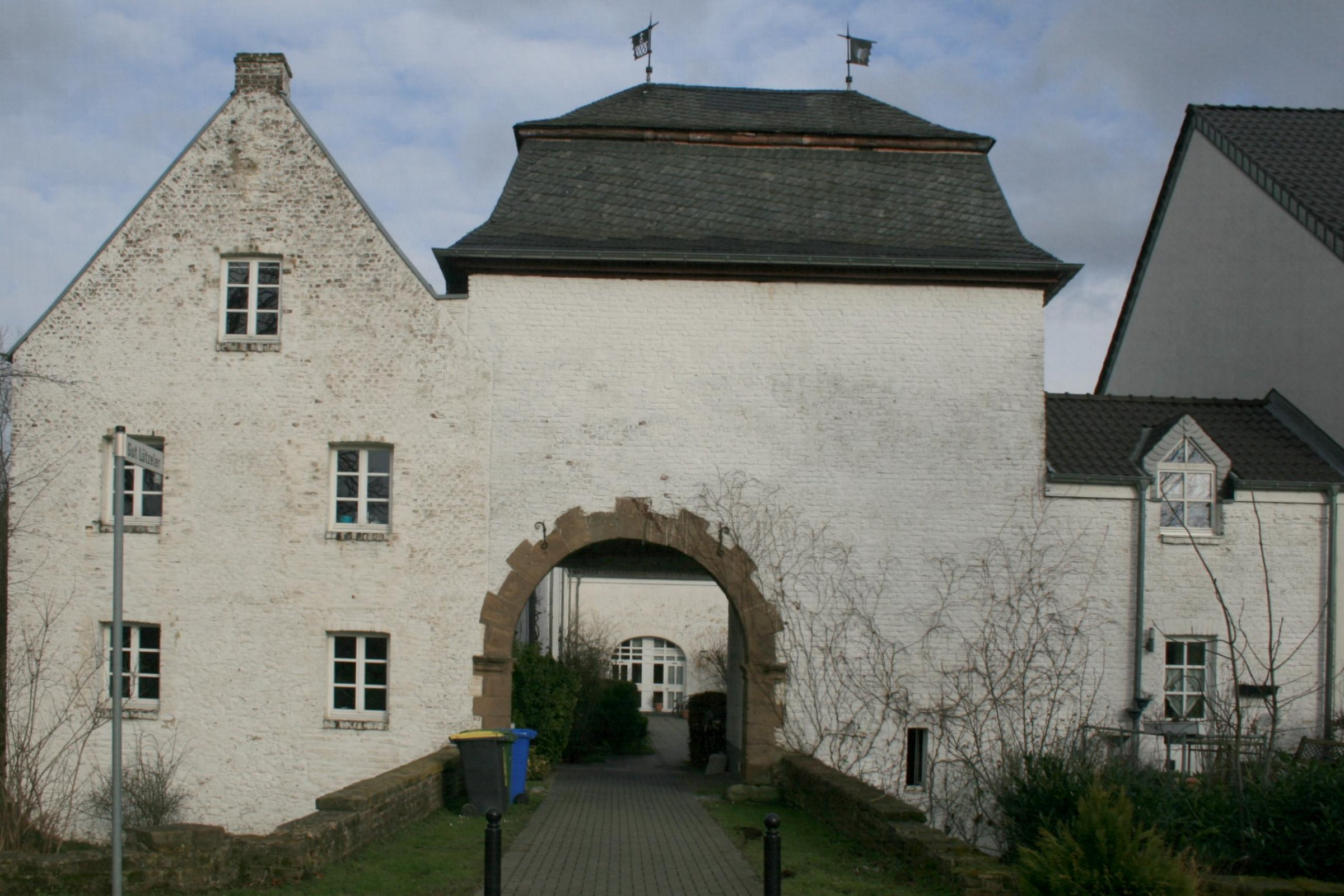 Cultural heritage monument No. 26 in Inden